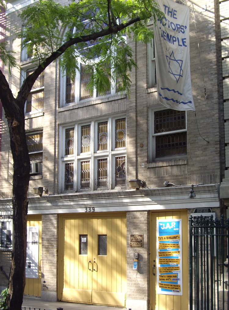 The Actors Temple, New York City 2007